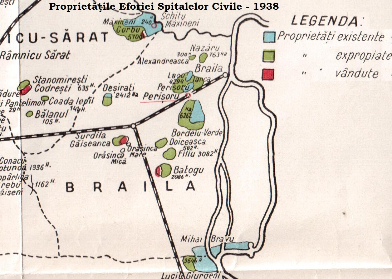 Map with the properties of the Eforia Spitalelor Civile from Brăila county, in 1938